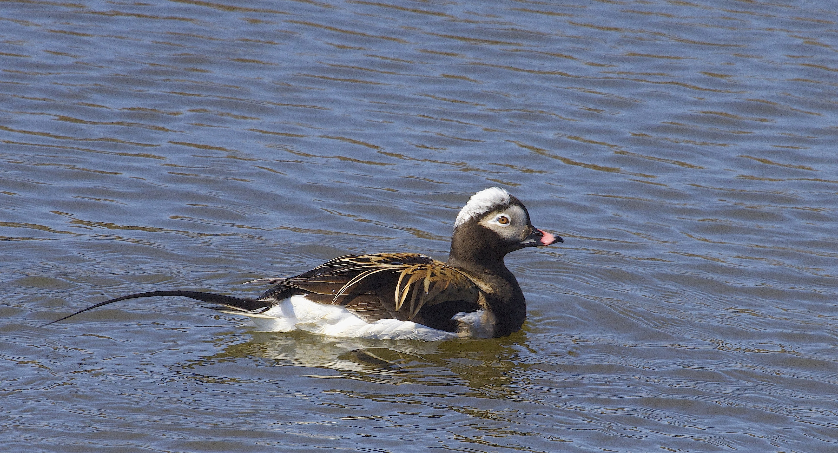 A male Long-tailed Duck in Nome, Alaska, USA.